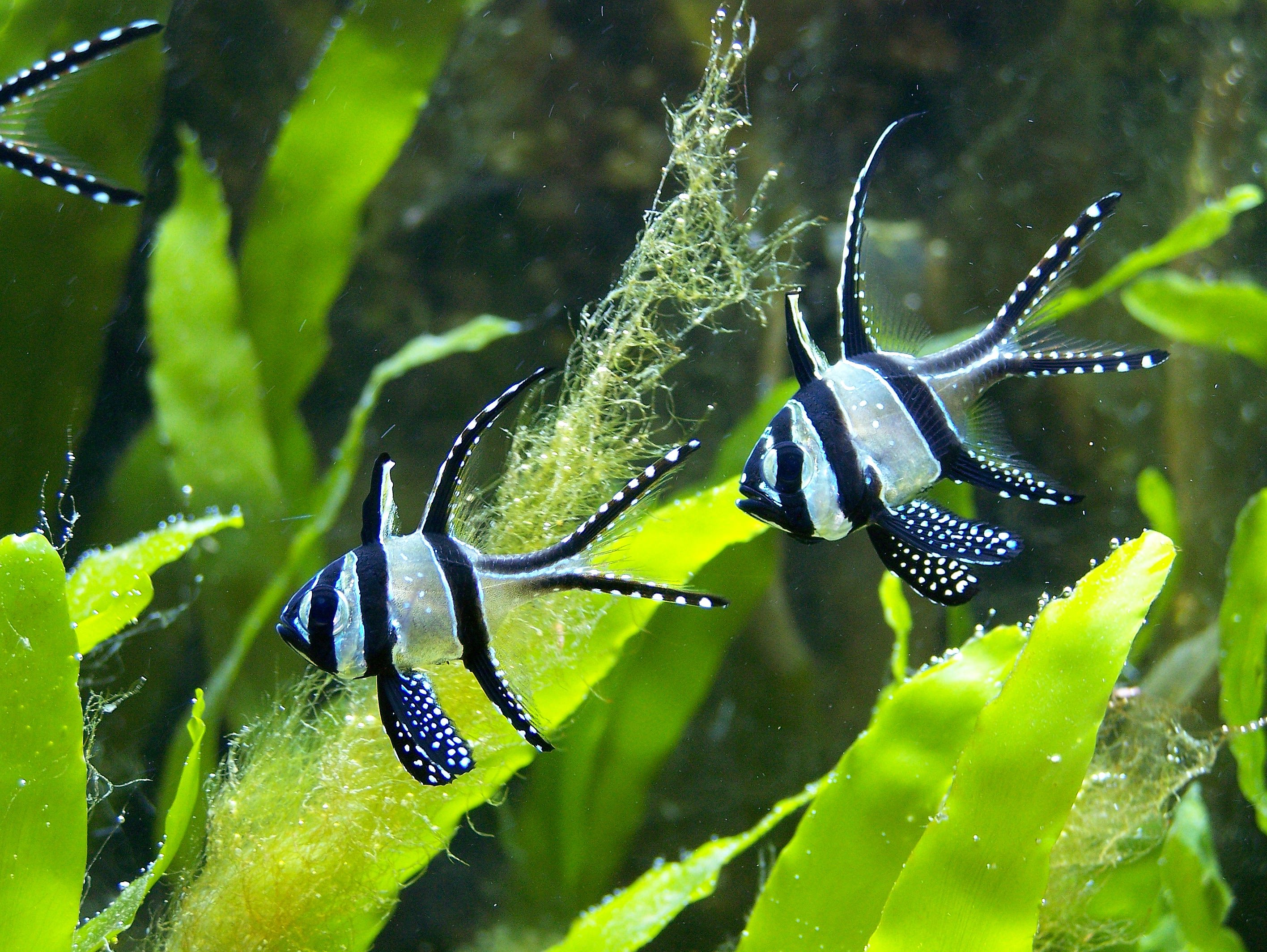 Family: Apogonidae (Cardinalfishes, subfamily: Apogoninae; Pterapogon kauderi ; (en: Banggai cardinal fish, de: Kardinalbarsch); Distribution: Western Central Pacific: Apparently restricted to Banggai Islands, Indonesia.